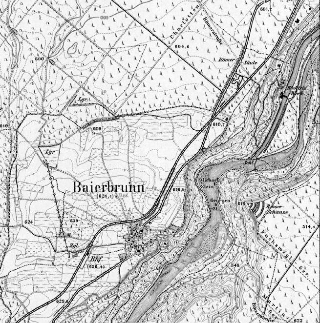 sheet 713 Baierbrunn of 1:25,000 topographic map of Bavaria, 1910